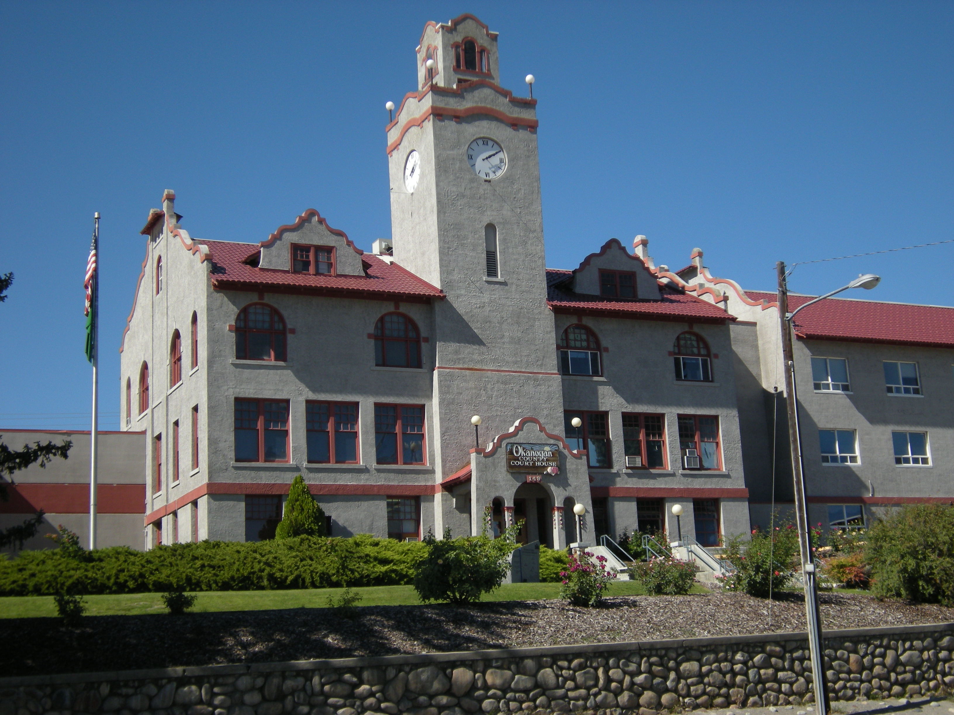 Okanogan County Courthouse, Okanogan, Washington.